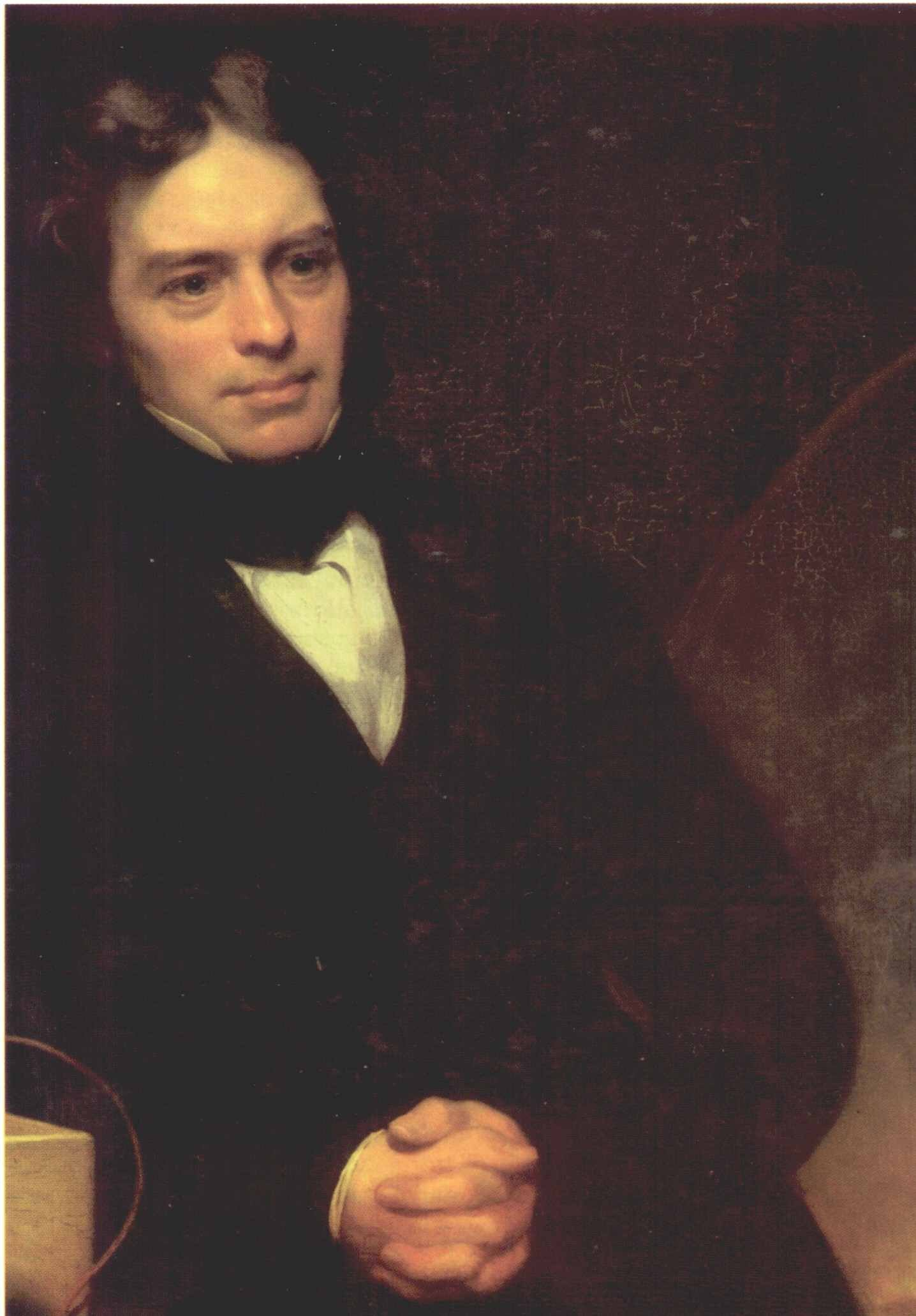 Michael Faraday by Thomas Phillips oil on canvas, 1841-1842 35 3/4 in. x 28 in. (908 mm x 711 mm) Purchased, 1868 NPG 269